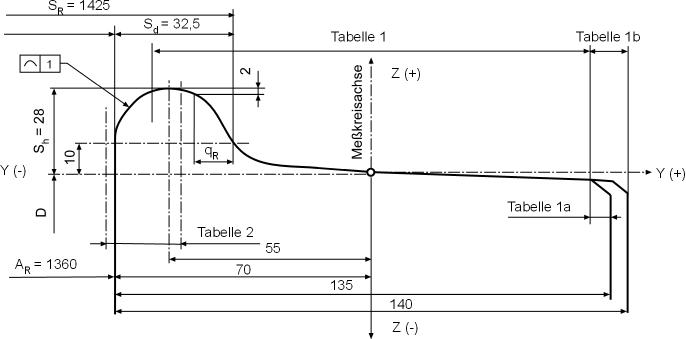 The figure shows the ORE Wheel profile S1002